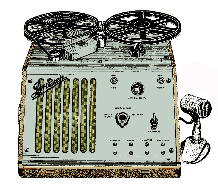 USSR (Ukraine) “Dhepr” tape recorder 1949